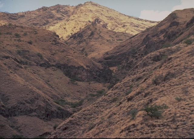 Ayelu - the westernmost and older of two volcanoes at the southern end of the Danakil depression.